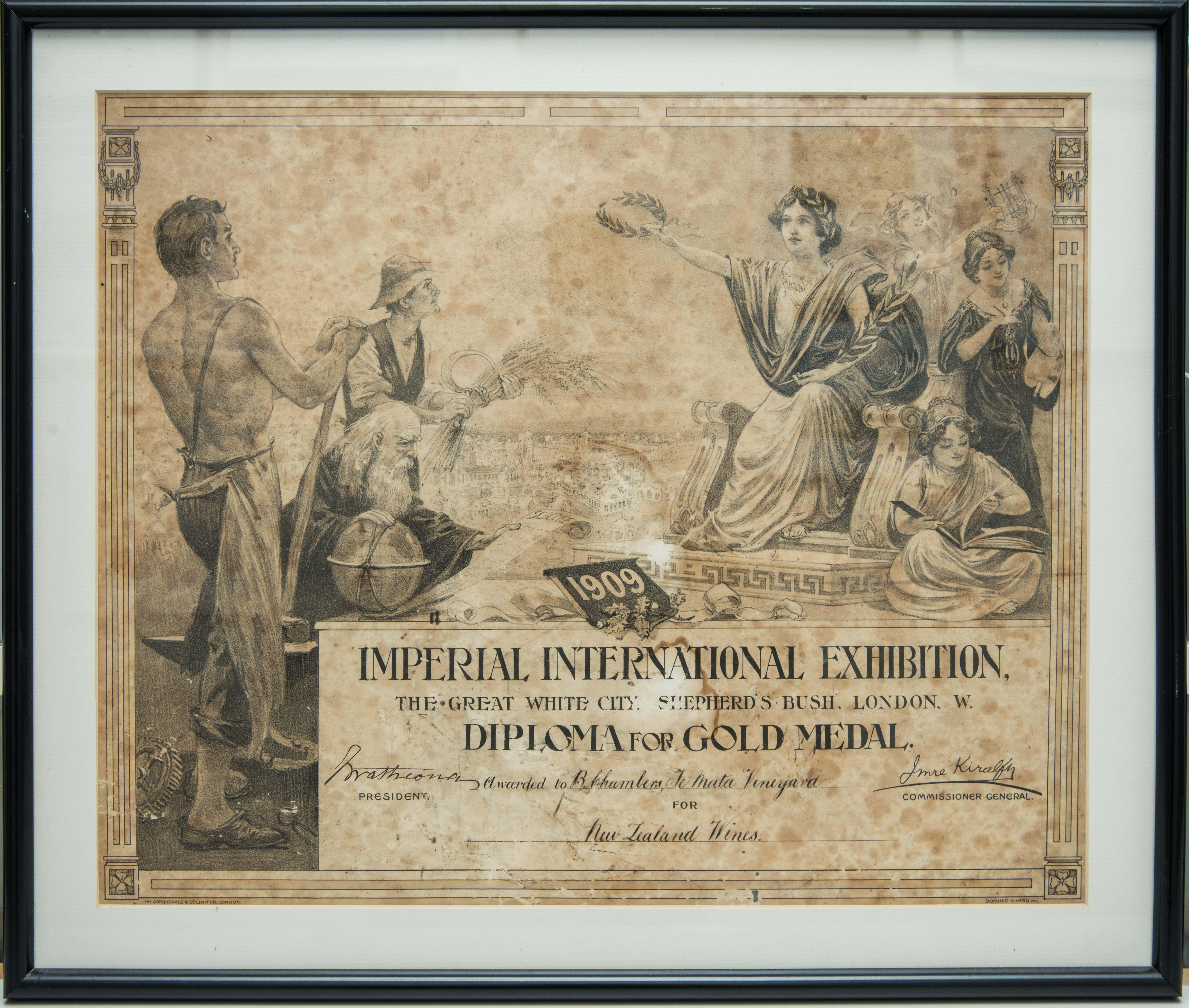 1909 International Wine Challenge